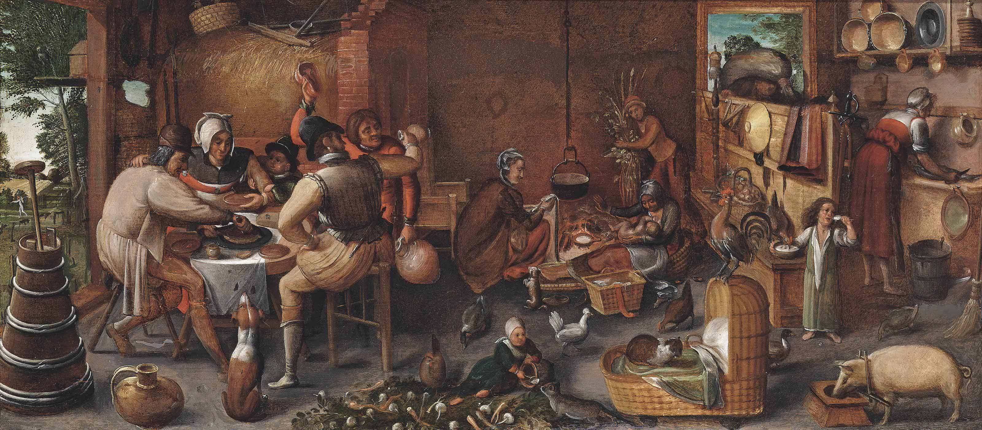 A well-dressed couple visit a peasant dwelling where a woman is nursing a baby, surrounded by children, animals, and elements of domestic life.